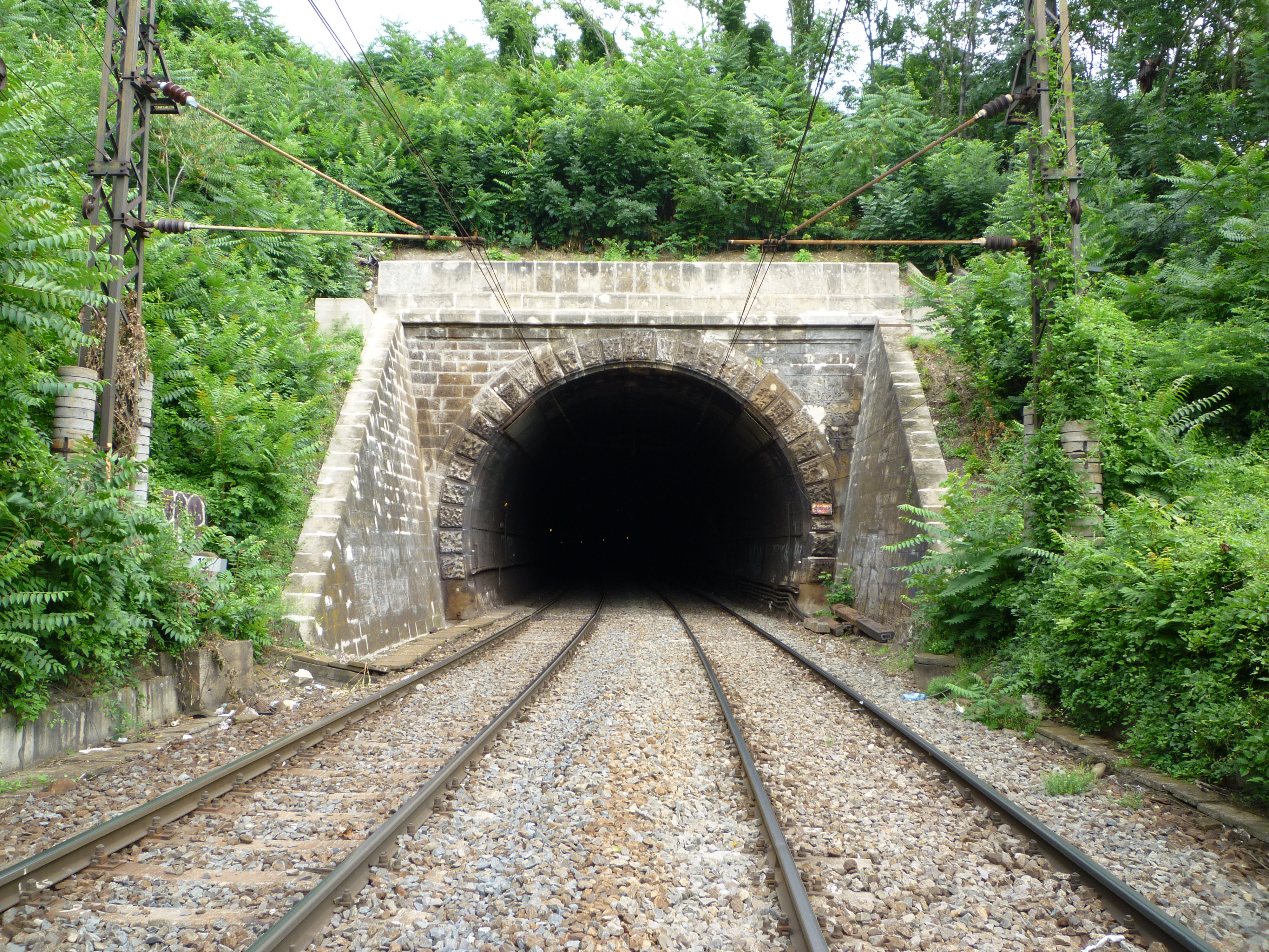 The southern entrance of the tunnel between Budapest Déli pályaudvar (Budapest South railway station) and Kelenföldi pályaudvar (Kelenföld railway station, Hungary).